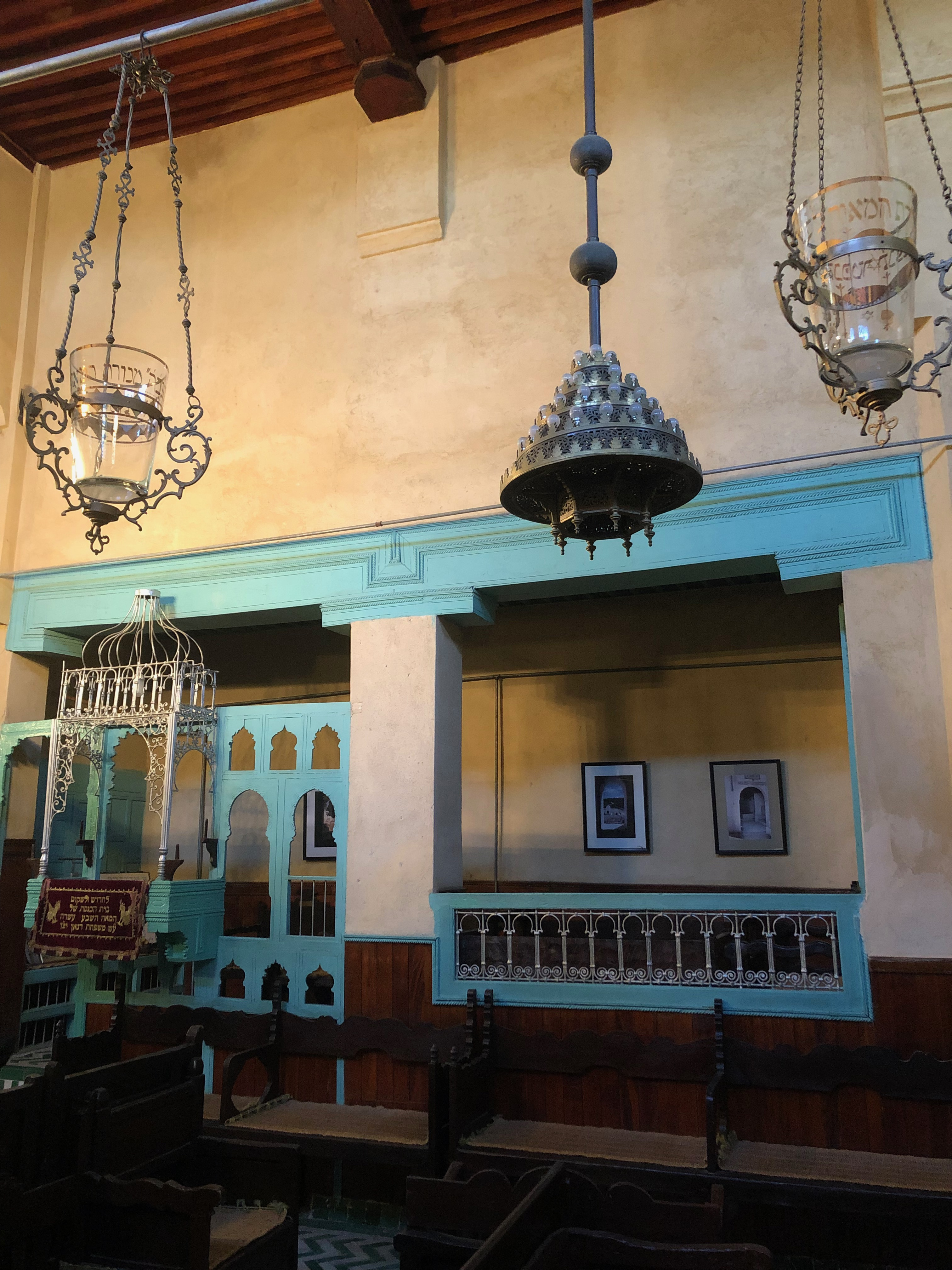 Synagogue Danan sanae:560001